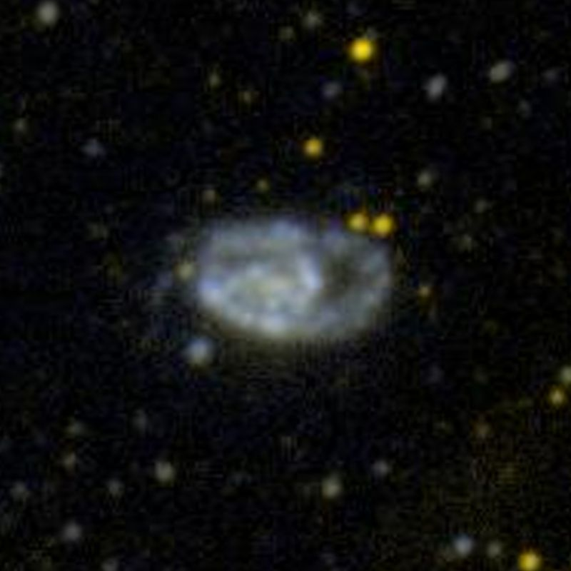 NGC 6373 galaxy from GALEX